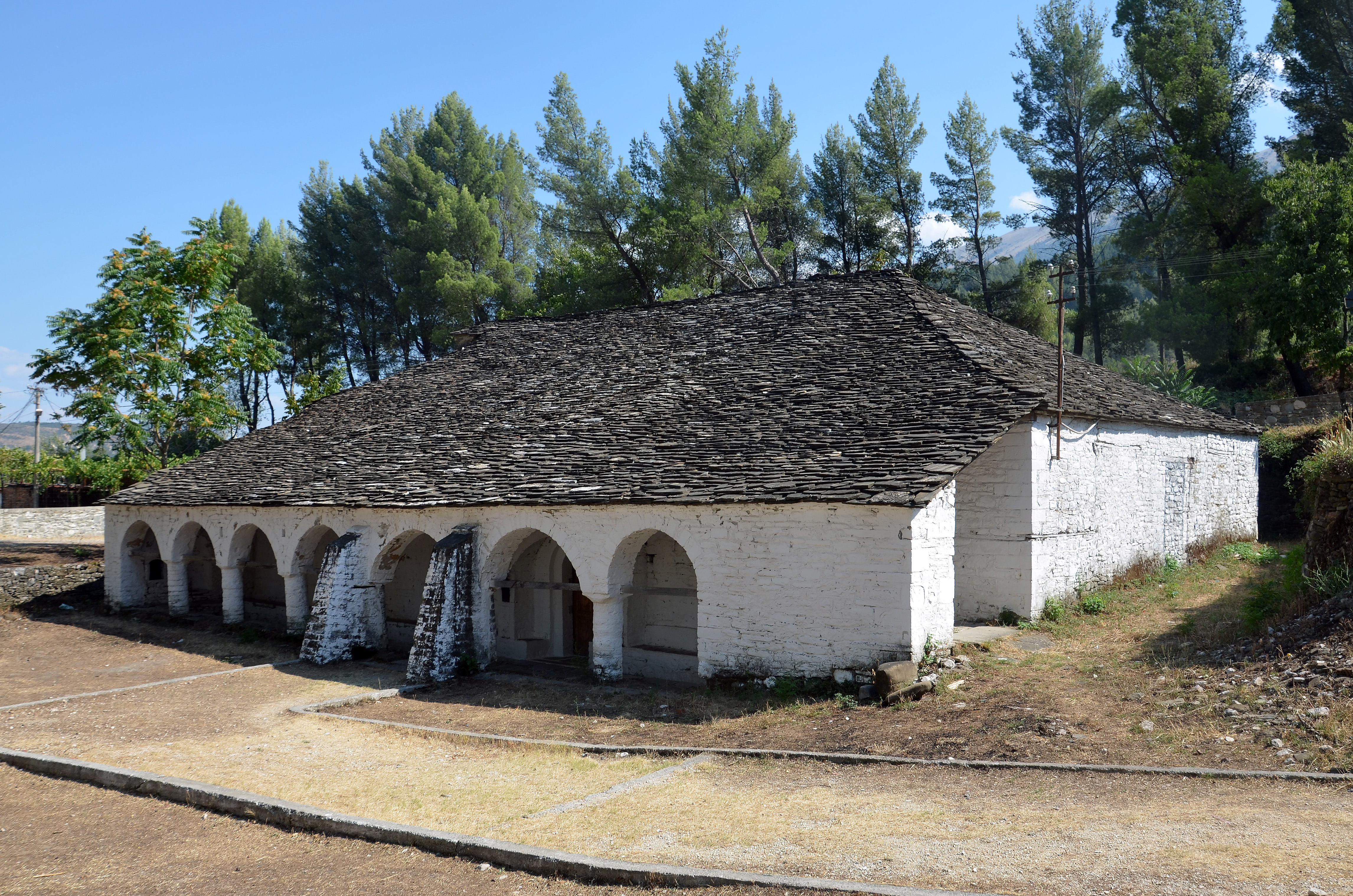 The St Paraskevi's Church in Përmet, Albania